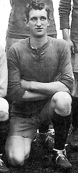 Swedish footballer Henning Svensson in 1915. In lineup before international against Denmark, 31 of october.